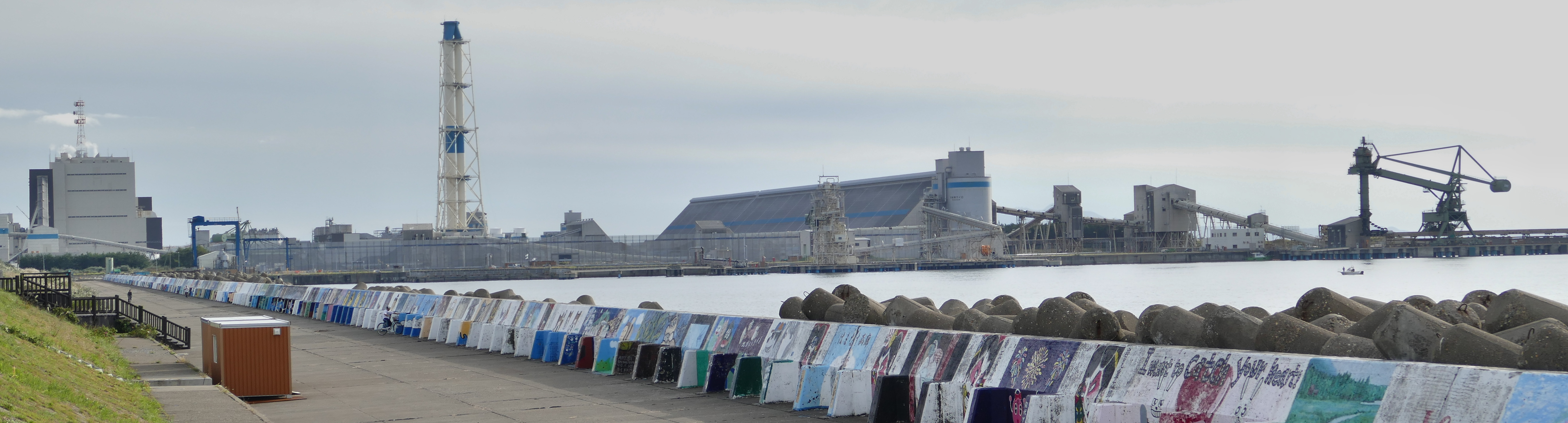 Noshiro Thermal power plants,Akita prefecture,Japan